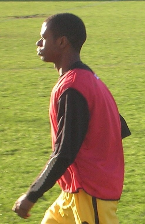 Eddie Odhiambo. Image cropped from original at flickr.